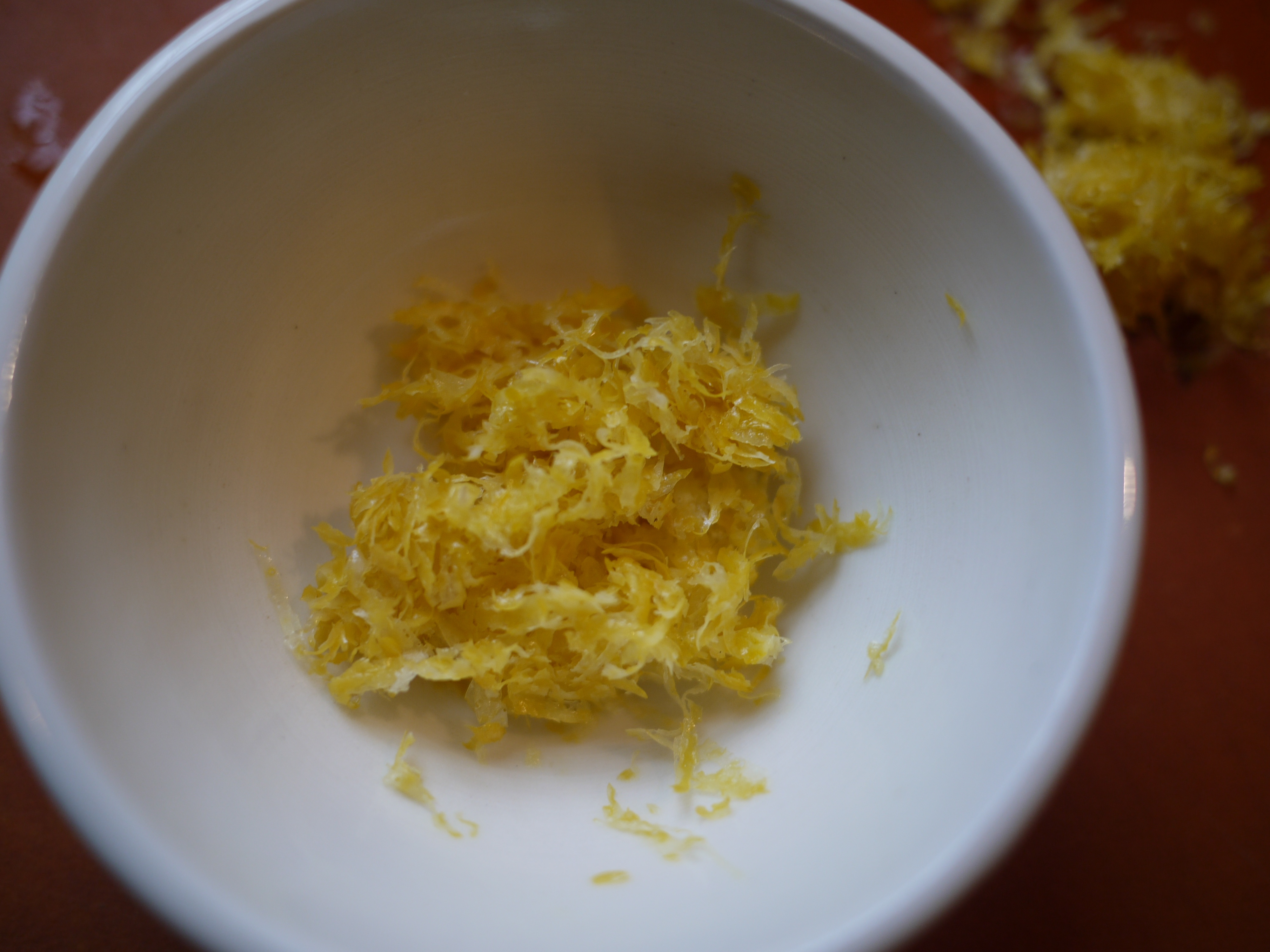 Lemon zest